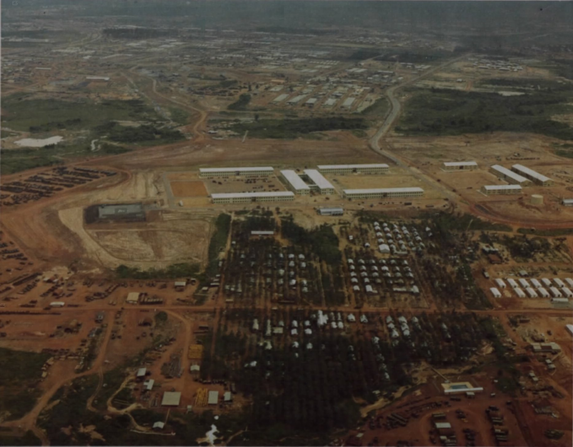 Aerial view of the Post at Long Binh.